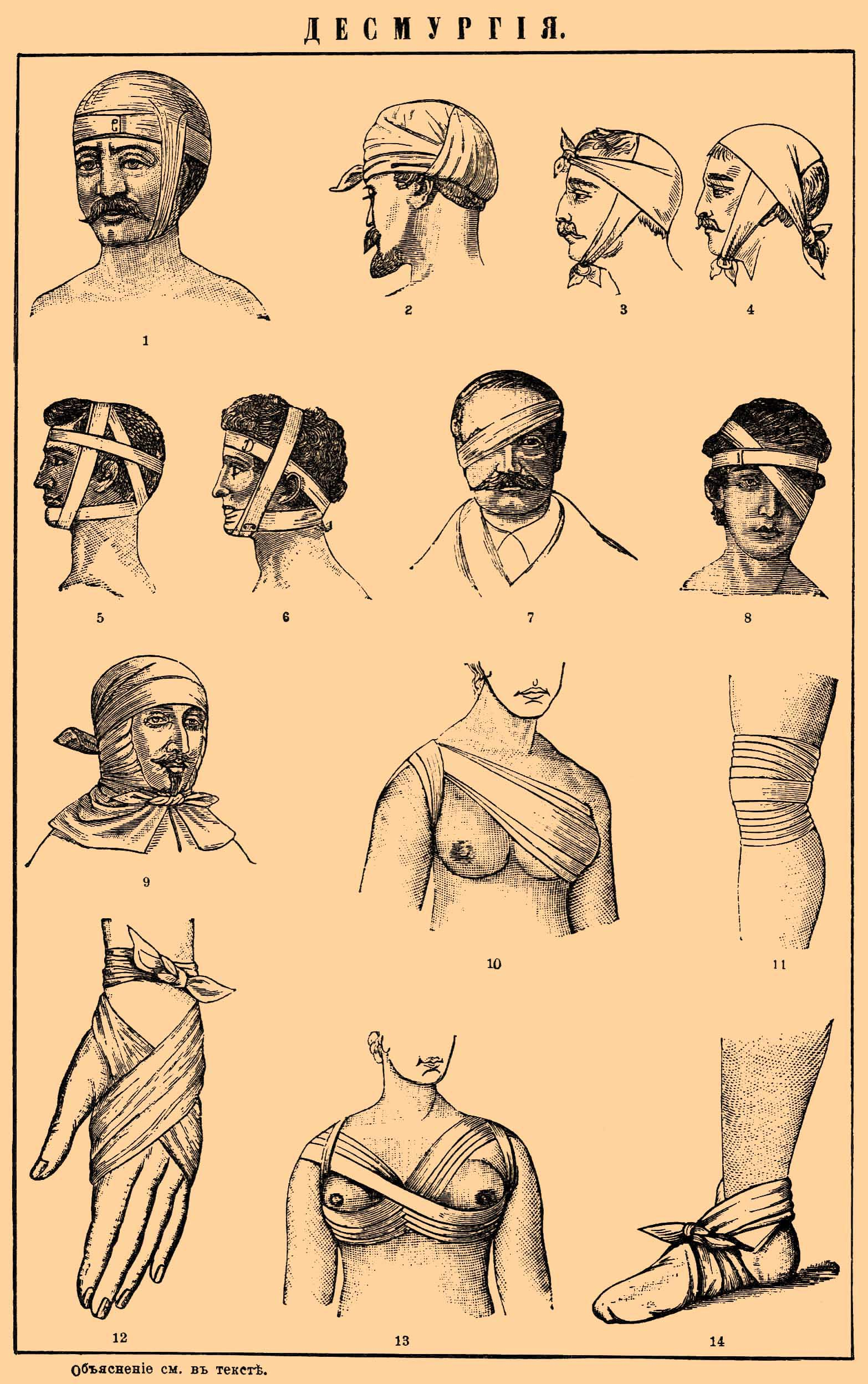 Illustration from Brockhaus and Efron Encyclopedic Dictionary (1890—1907)